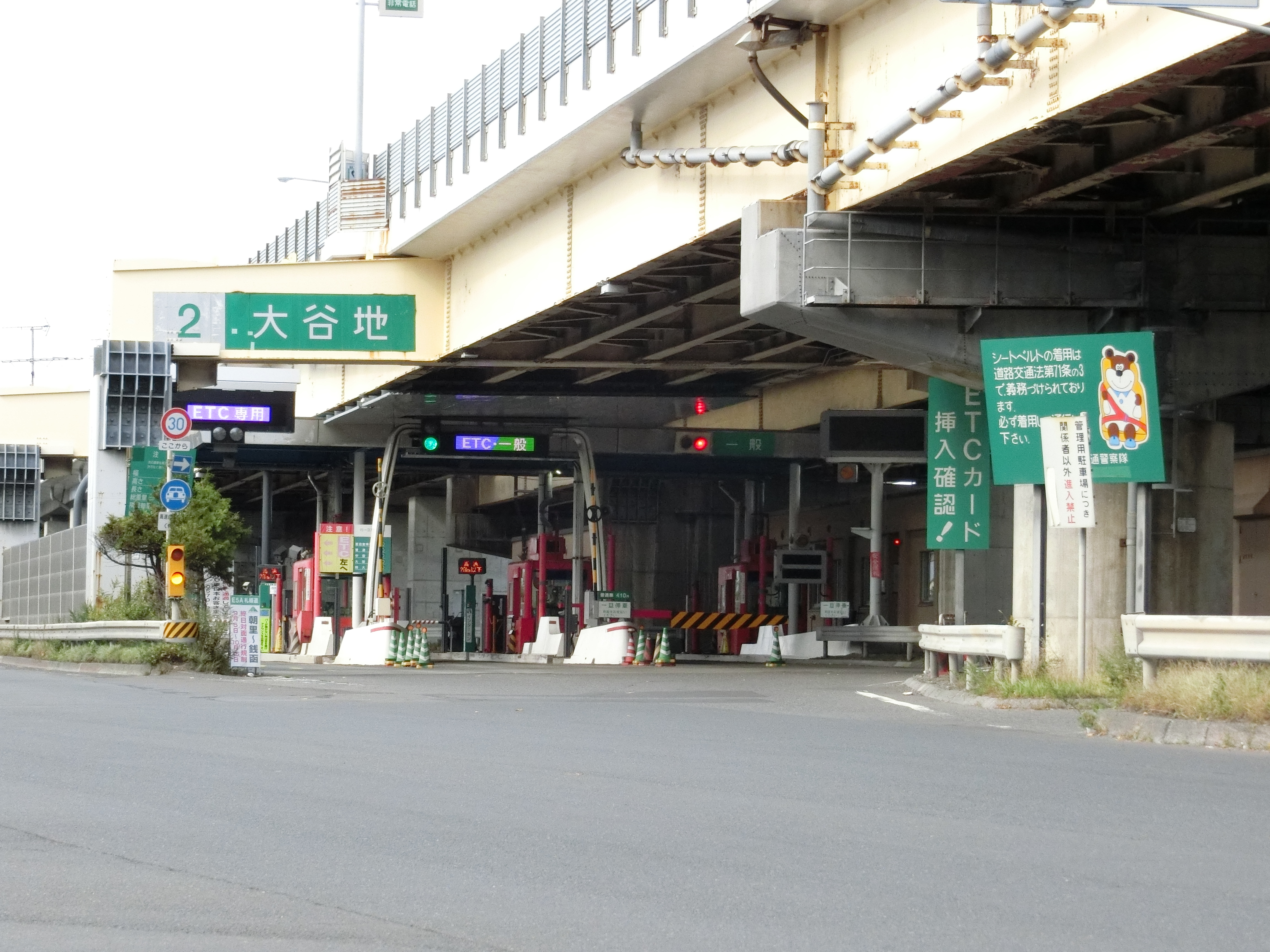 Exit of Oyachi Interchange on Hokkaido Expressway, located in Heir-Dori, Shiroishi Ward, Sapporo, Hokkaido